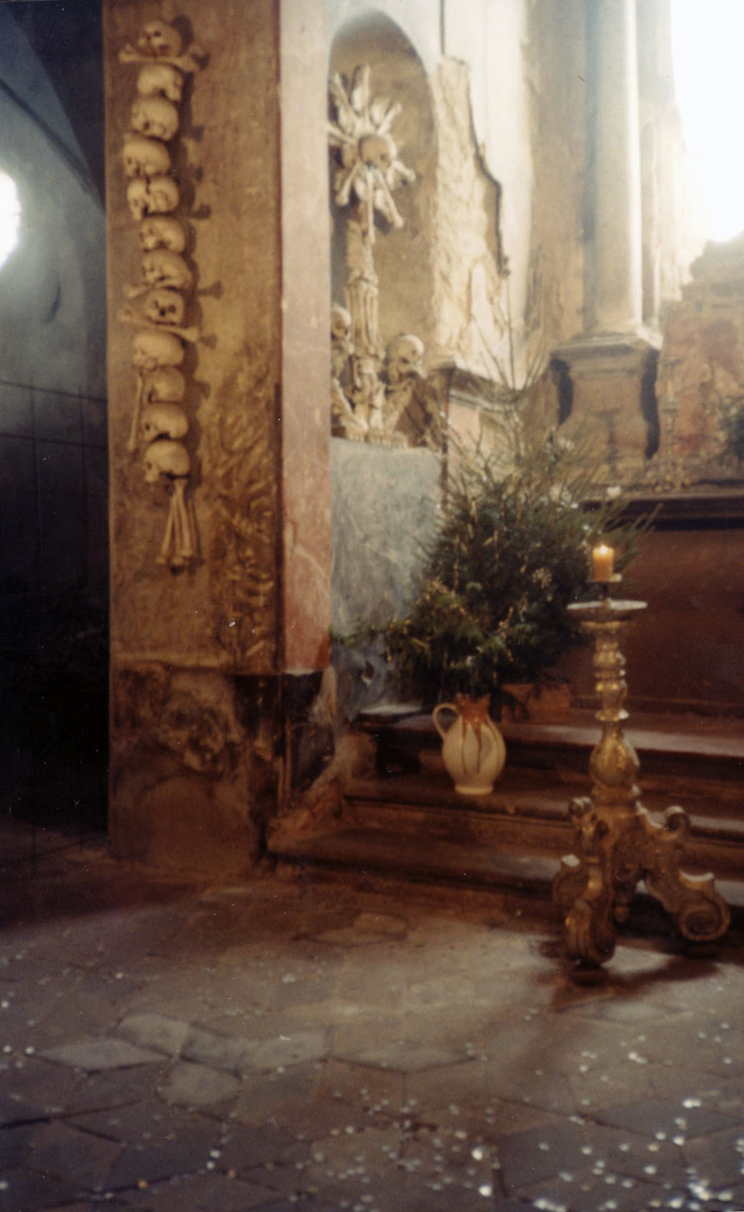 Sedlec ossuary, view of side of altar with monstrance. View is of the left side of the altar. Taken with an Olympus XA camera in natural light.